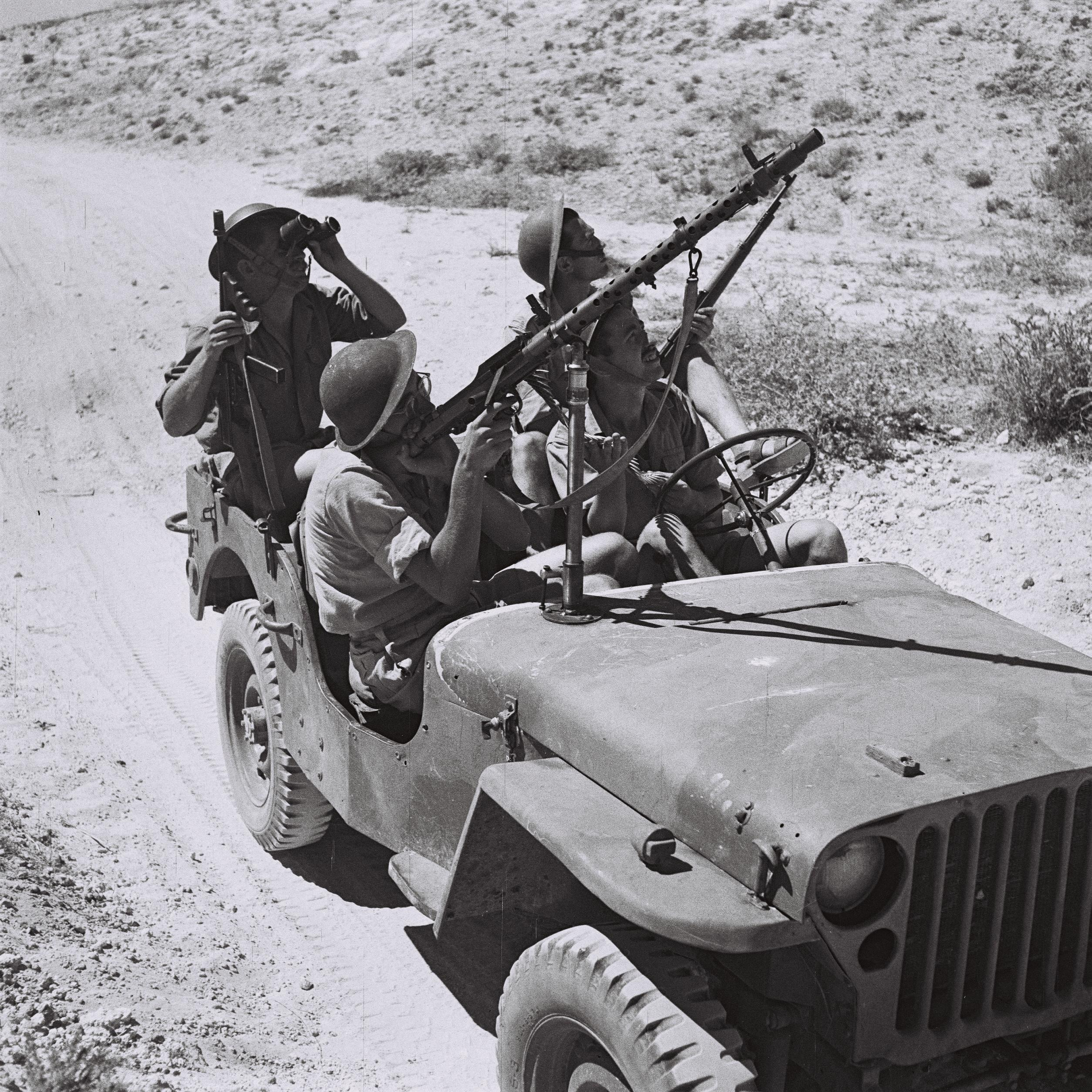 War of independence. In the photo, a patrol of the IDF's "Samson's Foxes" unit in the south.